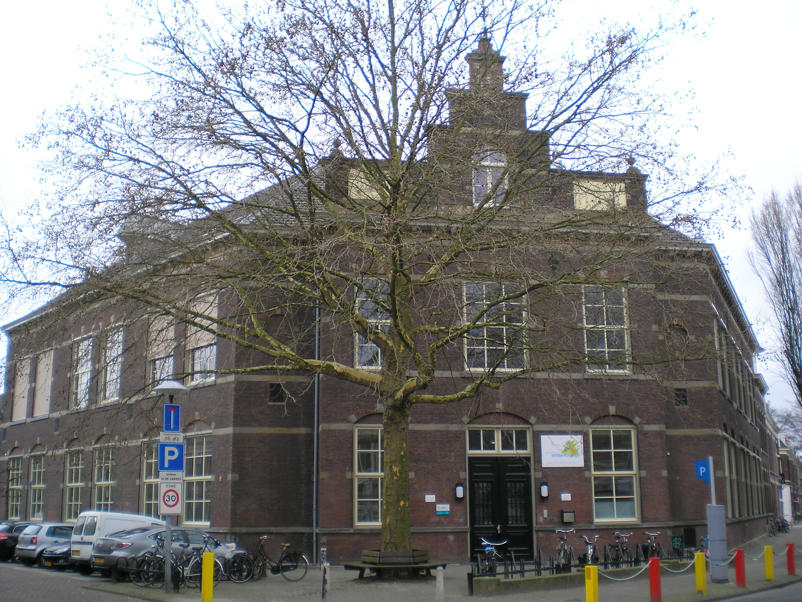 School at the Poortstraat in Utrecht in the Netherlands